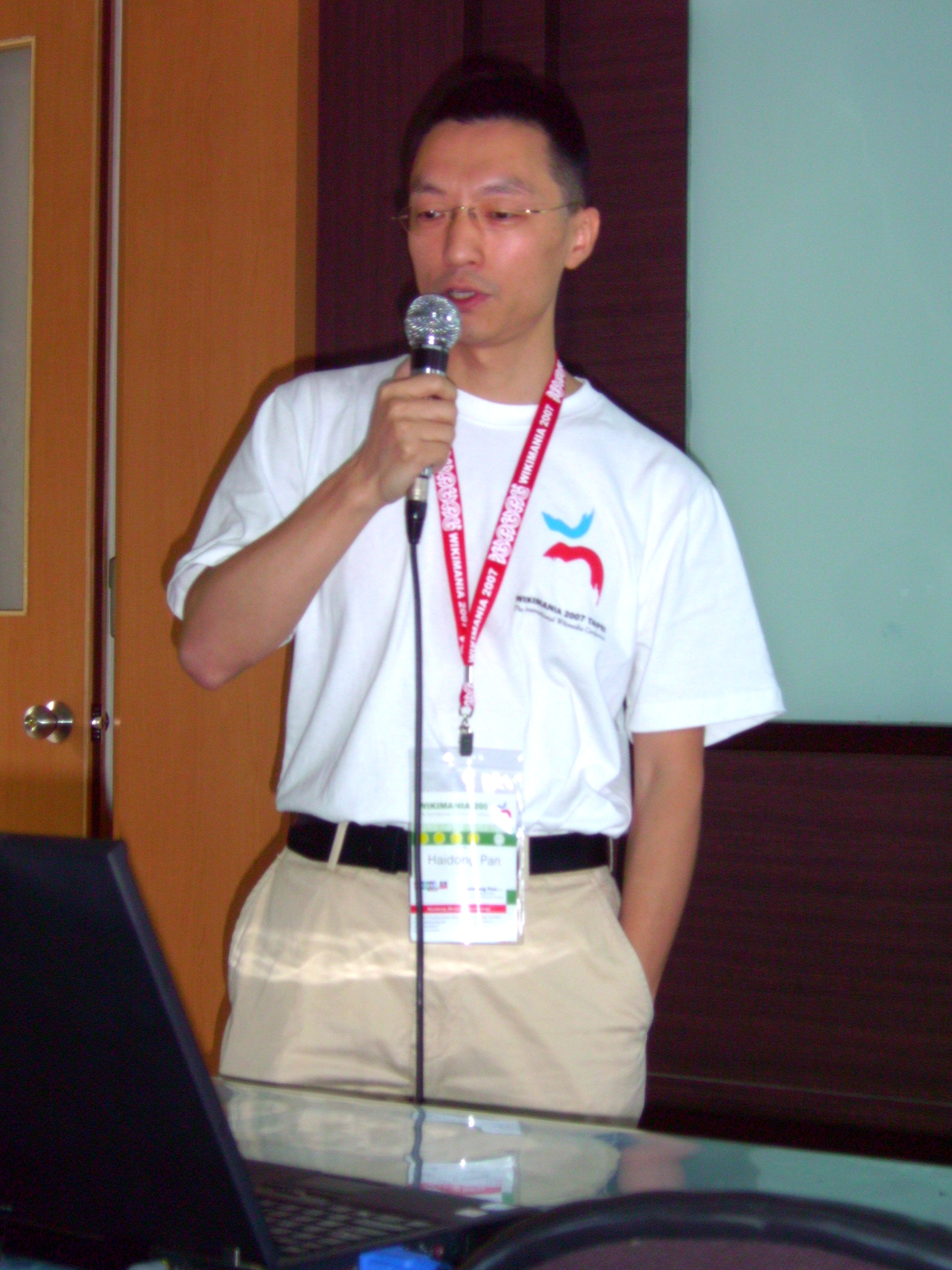 Wikimania 2007 Session 502: Haidong Pan is one of the Speakers of this session.